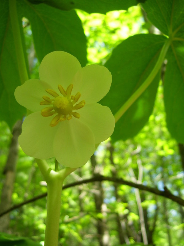 A Mayapple (Podophyllum peltatum) on a trail in the Al Sabo Preserve, Portage, MI.